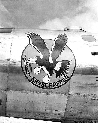 Boeing B-29 Superfortress with nose art "Skyscrapper." Boeing B-29-40-BW Superfortress s/n 42-24599 869th BS, 497th BG, 20th AF. Destroyed on Saipan on November 27, 1944.